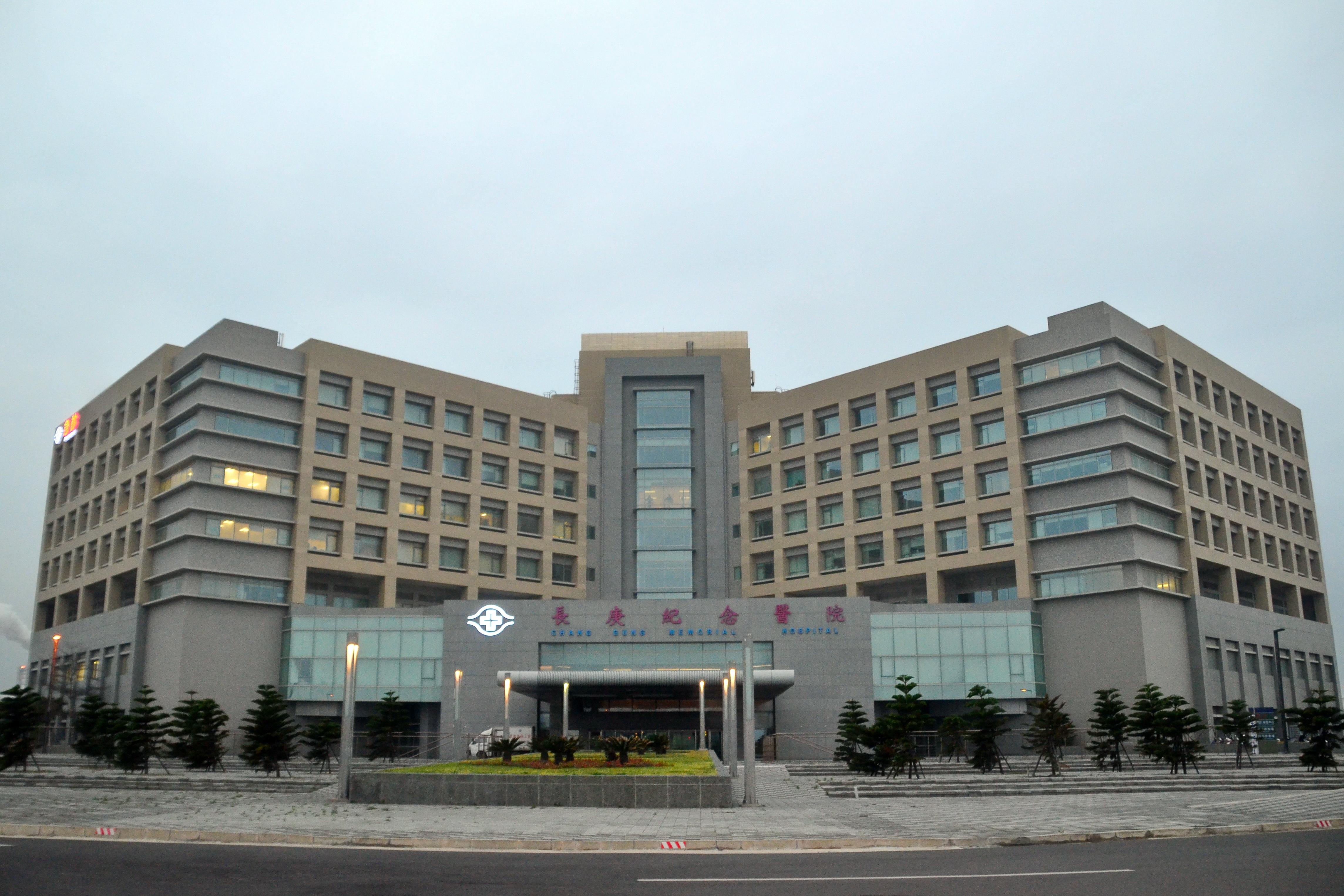 Yunlin Chang Gung Memorial Hospital, 707 Gongye Road, Mailiao , Yunlin, Taiwan.